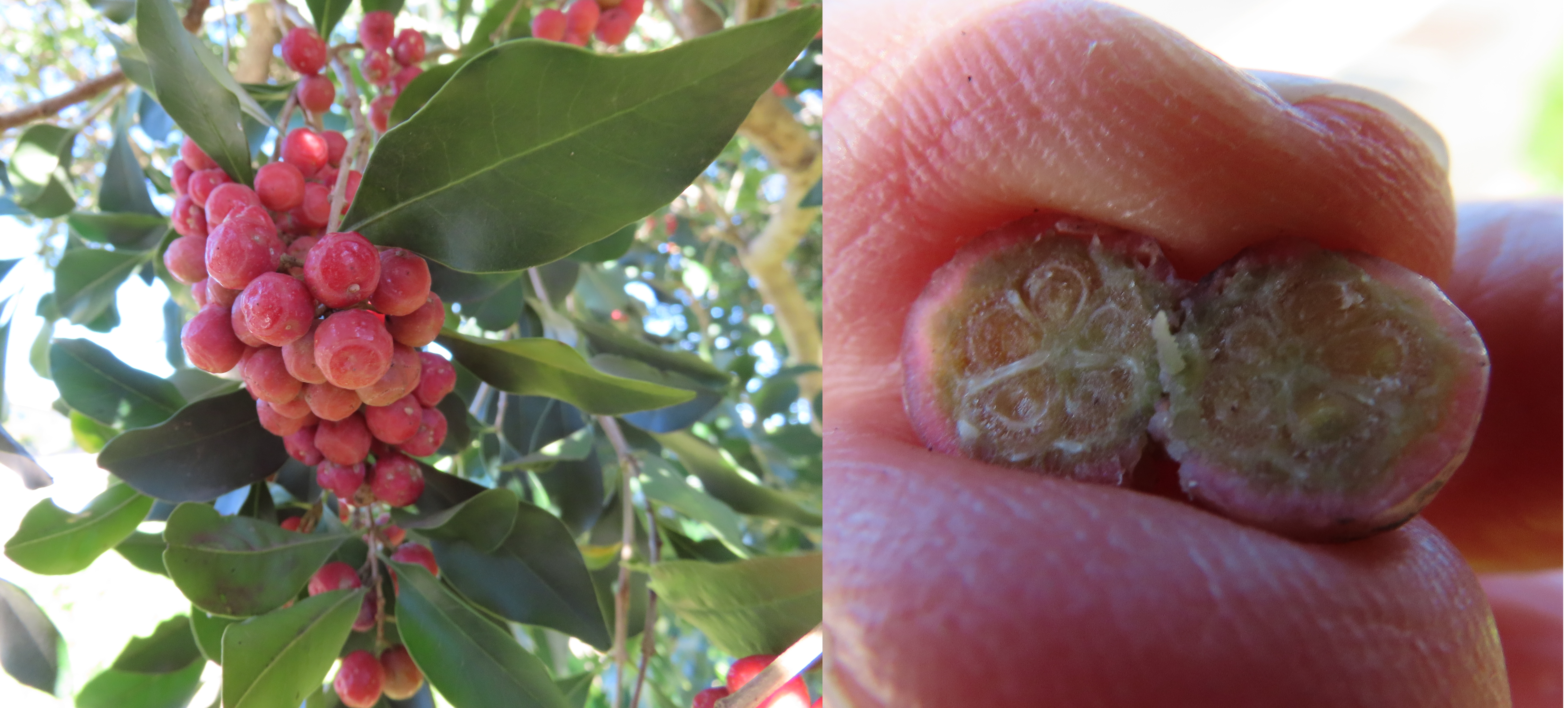 Berries of Olinia ventosa with cross-section, showing seeds in pulp of partly ripe berry